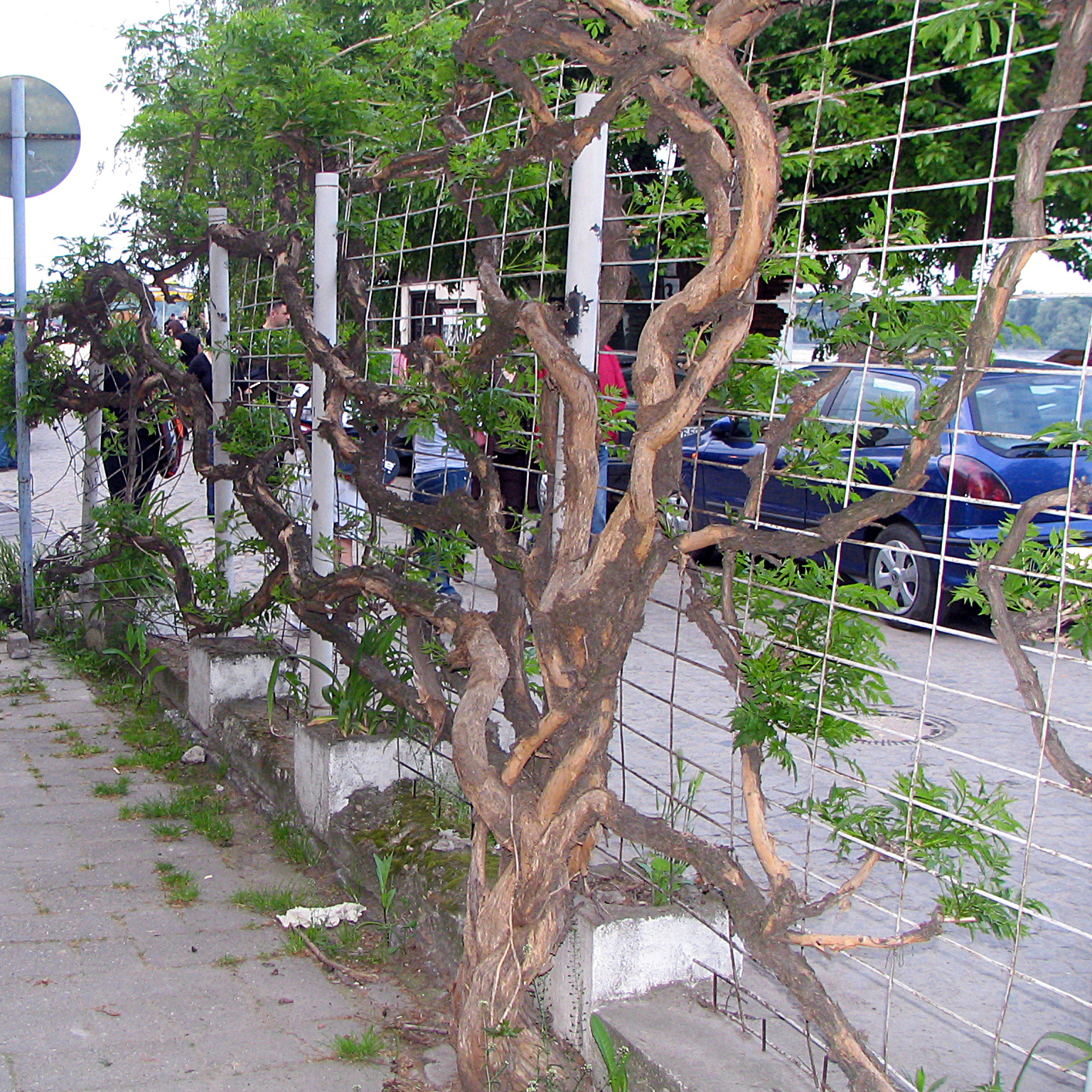 Old Campsis radicans in Zemun (Serbia)